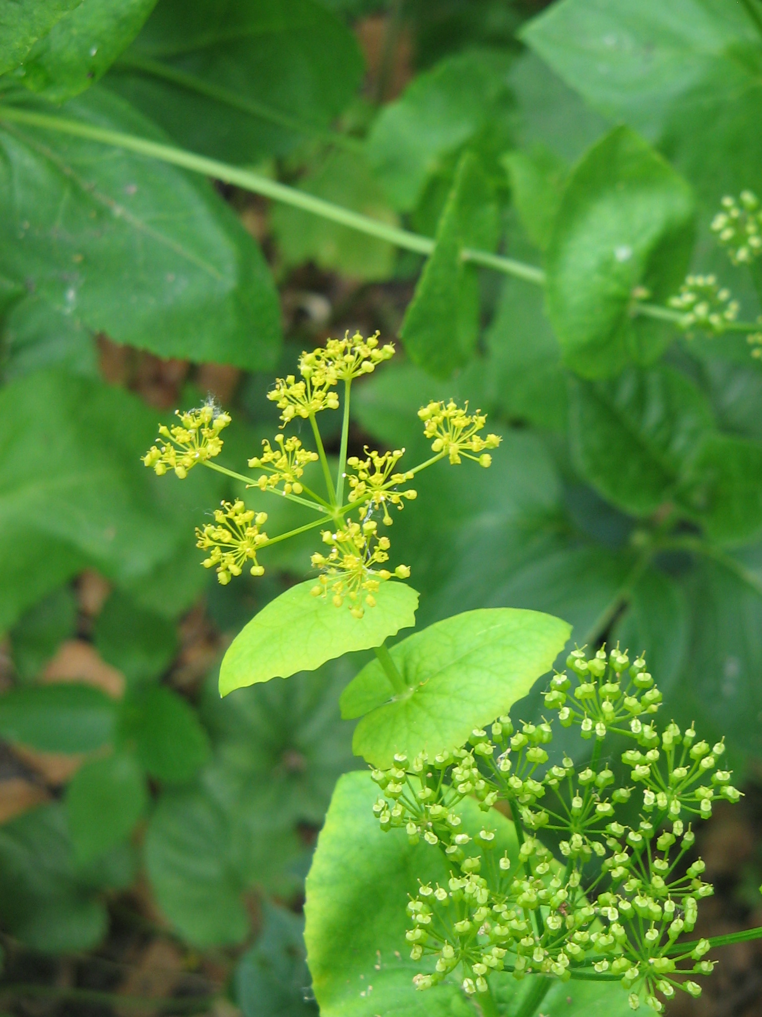 Smyrnium perfoliatum